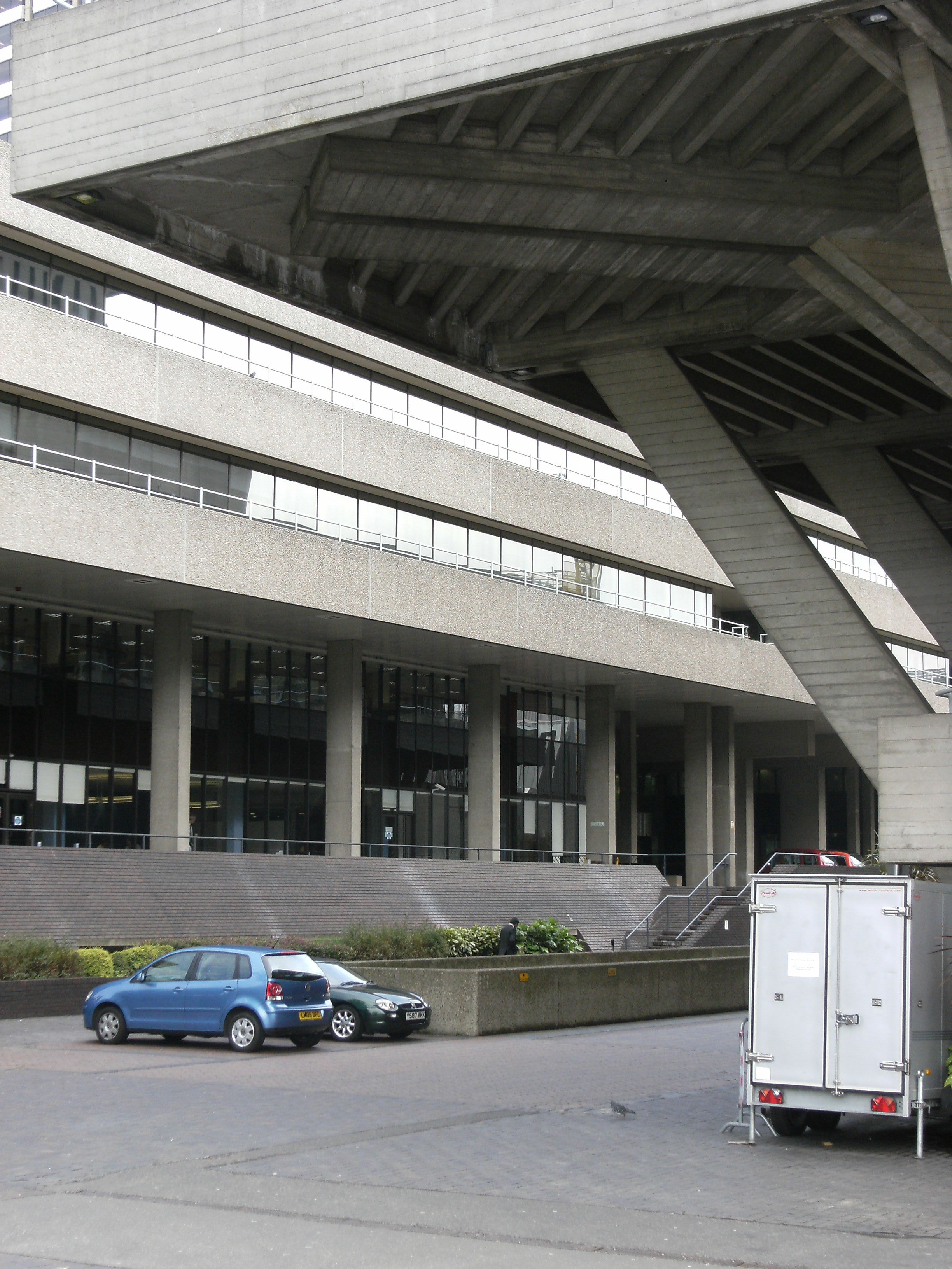 Looking towards the IBM Client Centre from the grounds of the National Theatre, South Bank, London.